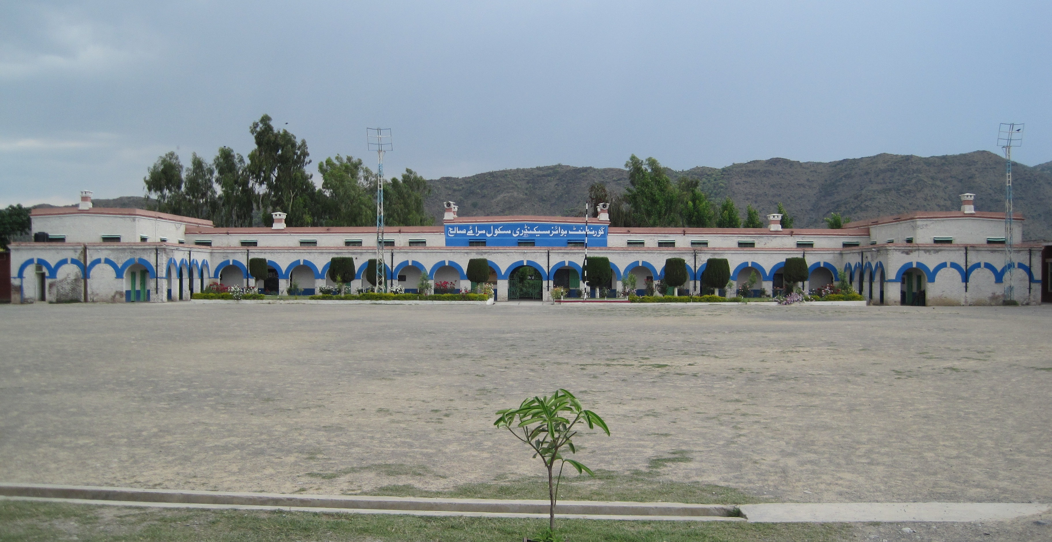 Govt. Boys Higher Secondary School Sarai Saleh